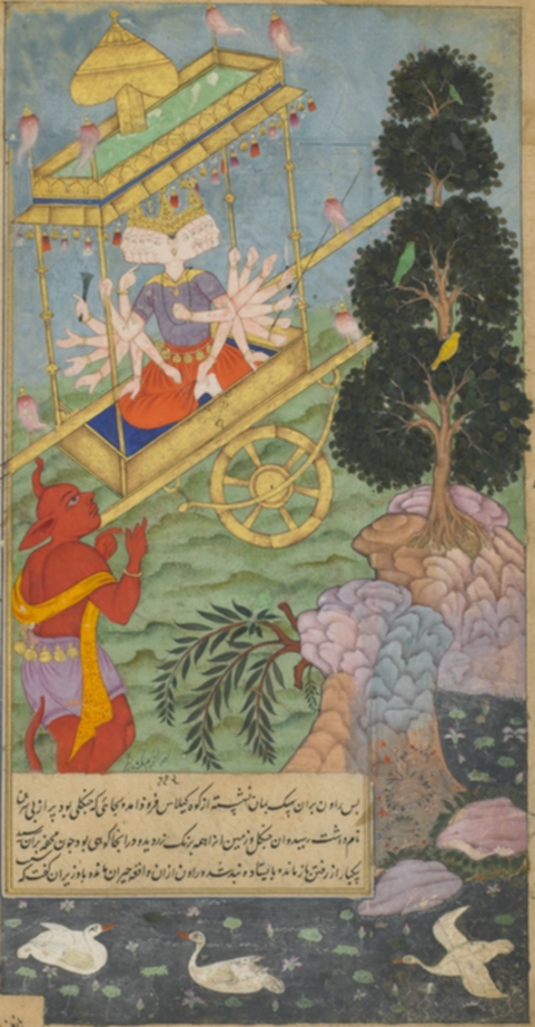 Folio from the Ramayana of Valmiki (The Freer Ramayana), Vol. 2, folio 297; recto: text; verso: Ravana seizes the chariot Puspaka from Kuvera